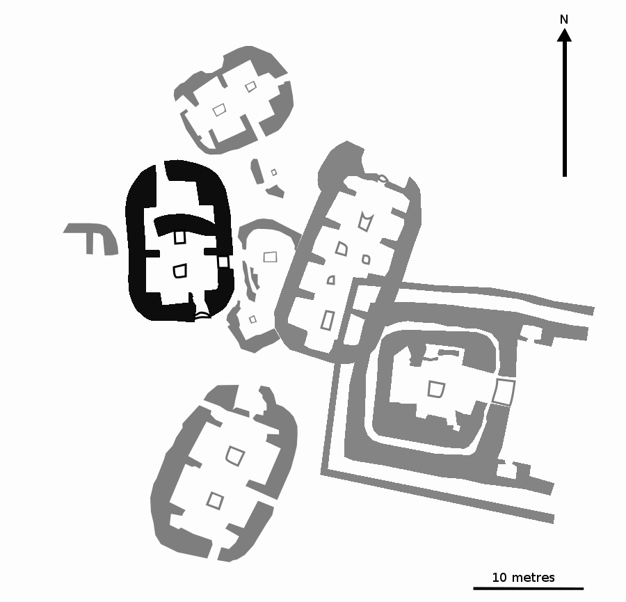 Plan of the Ness of Brodgar with structure #1 highlighted.